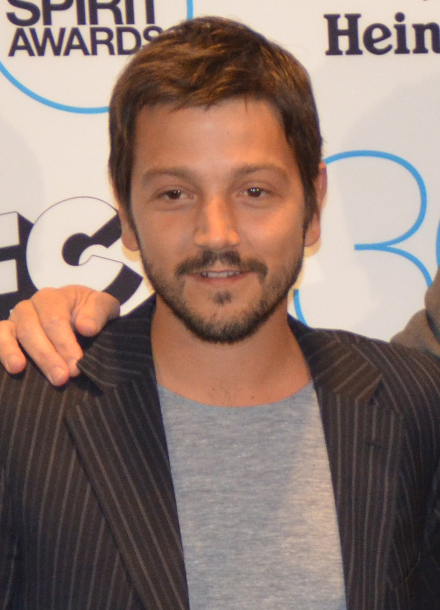 Diego Luna, Josh Welsh & Rosario Dawson at the 2015 Film Independent Spirit Awards Nominations Press Conference